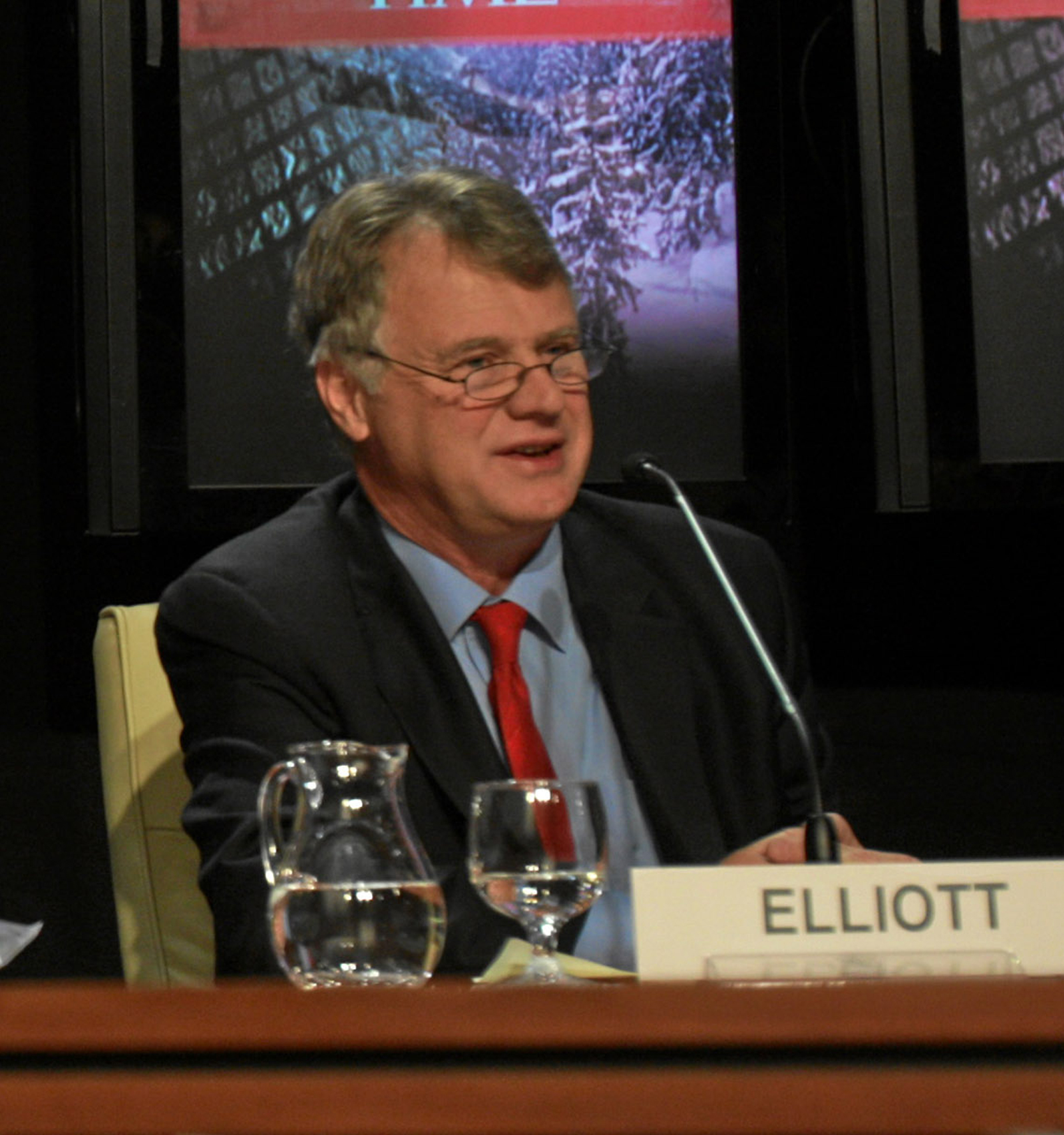 Michael J. Elliott, editor of The Time, spoken at the World Economic Forum Annual Meeting in Davos Municipality, Graubünden Canton on January 28, 2009.